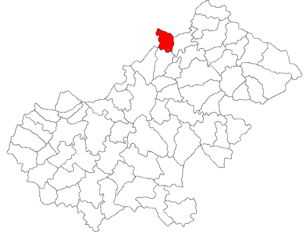 Locator map of Porumbersti Commune, Satu Mare County, Romania